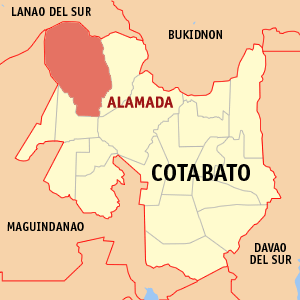 Map of the Cotabato showing the location of Alamada